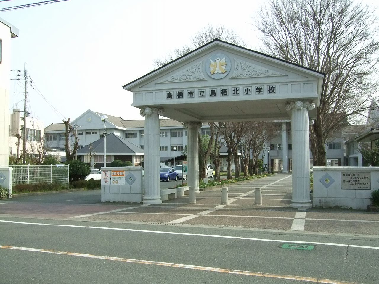 Tosu Municipal Tosukita Elementary School, Tosu City, Saga, Japan.